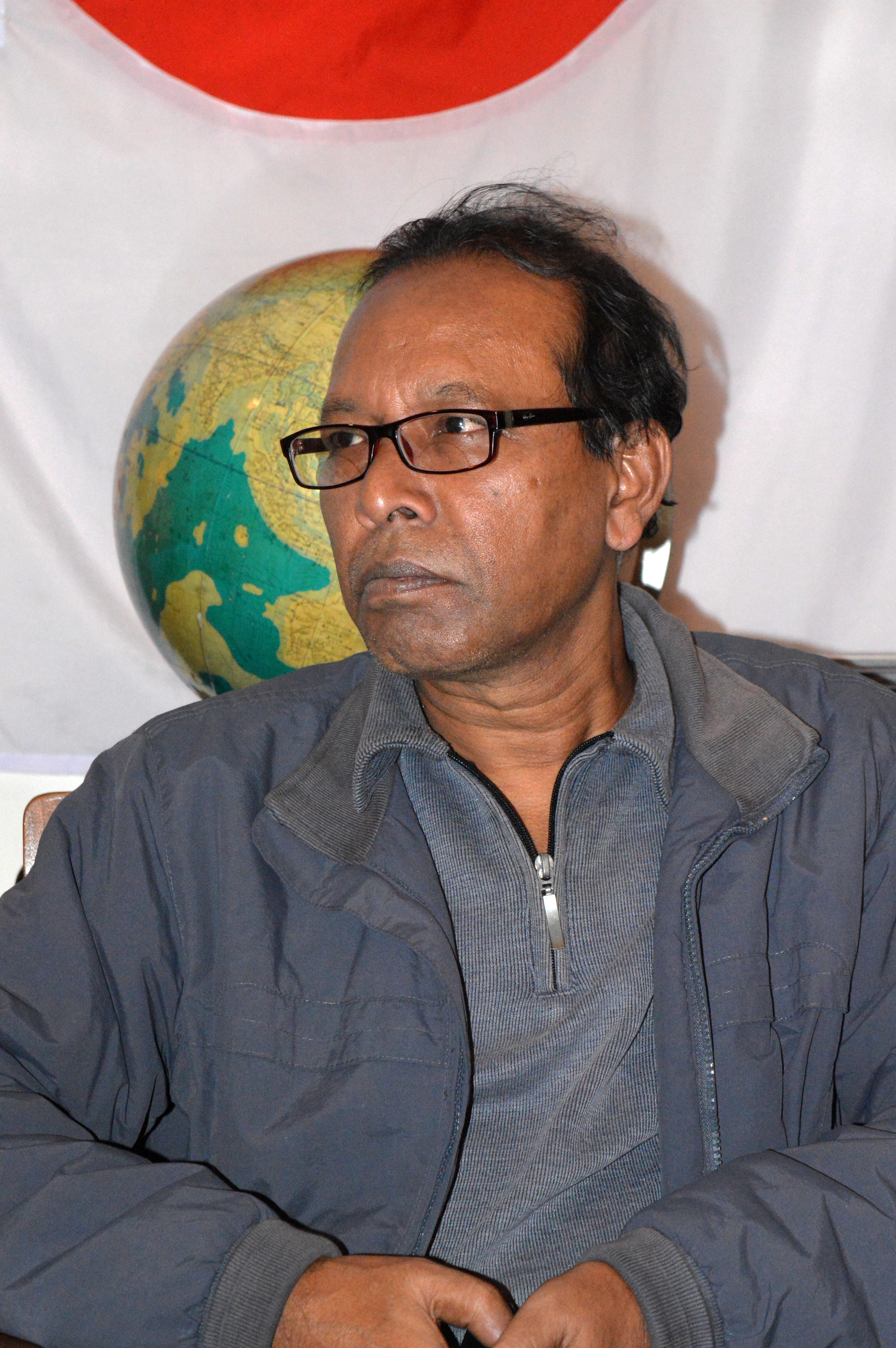 Hafiz Rashid Khan at BNWIKI12 in Chittagong